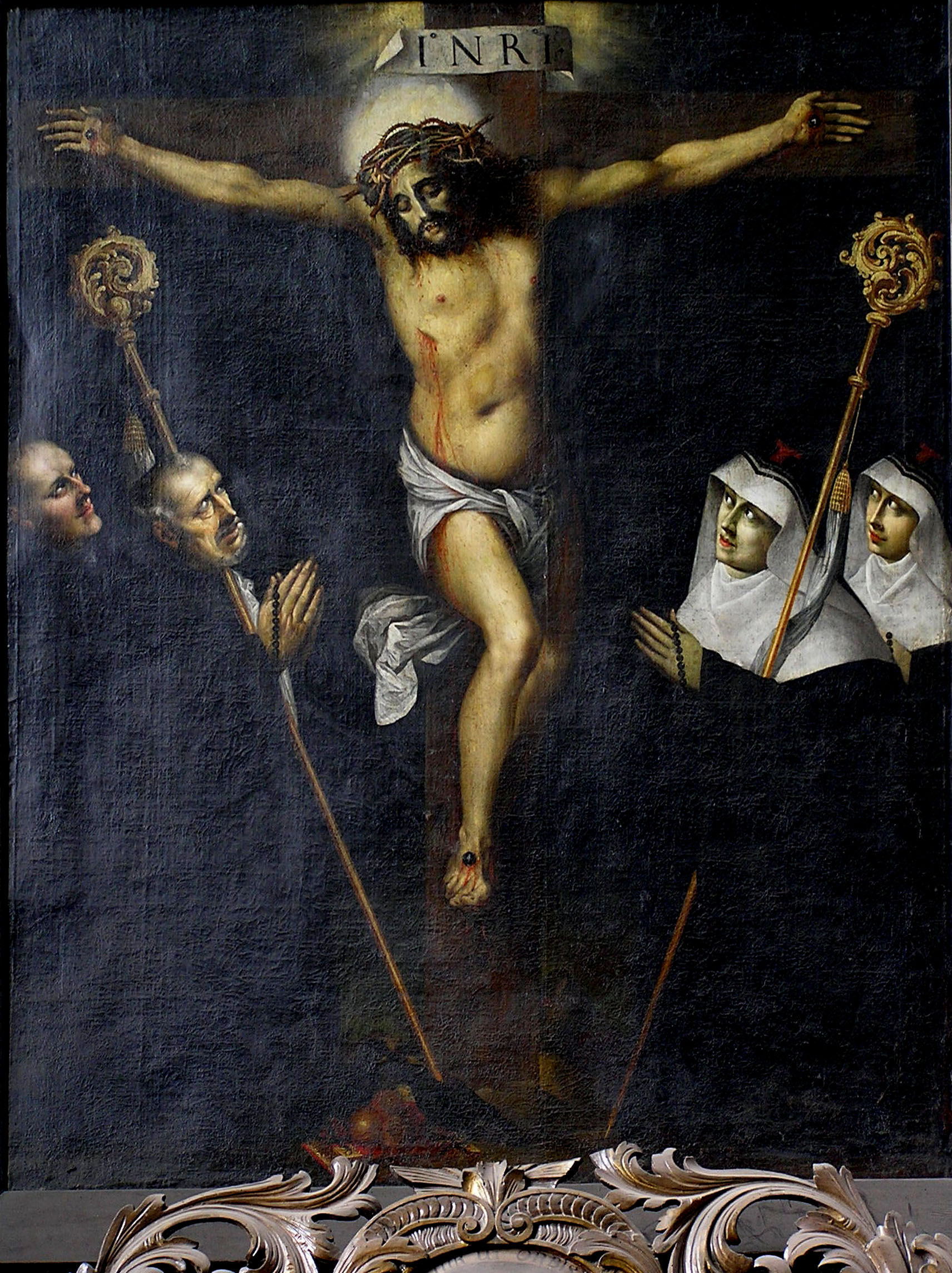 Toruń, church of St. James, Crucifixion, 1634, by Bartłomiej Strobel